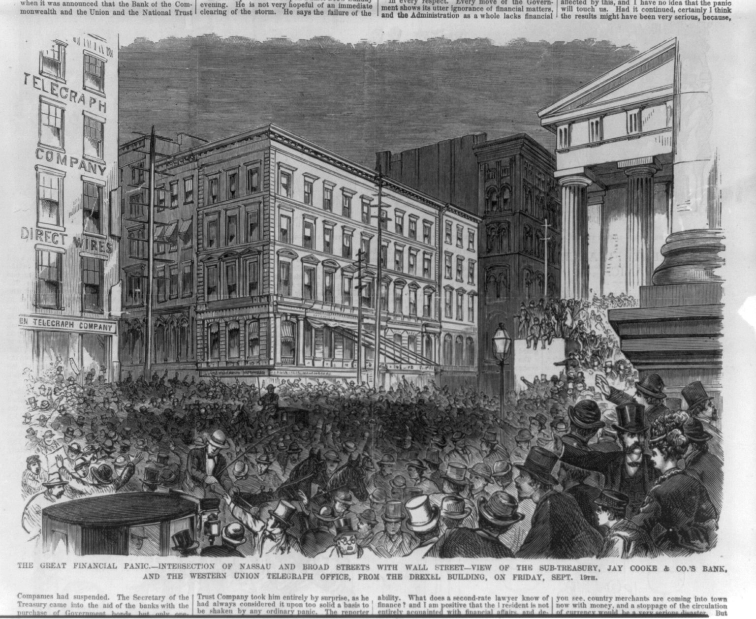 Title: The Great Financial Panic - Intersection of Nassau and Broad Streets with Wall Street - View of the sub-treasury ... on Friday Sept. 19th Abstract/medium: 1 print : wood engraving.